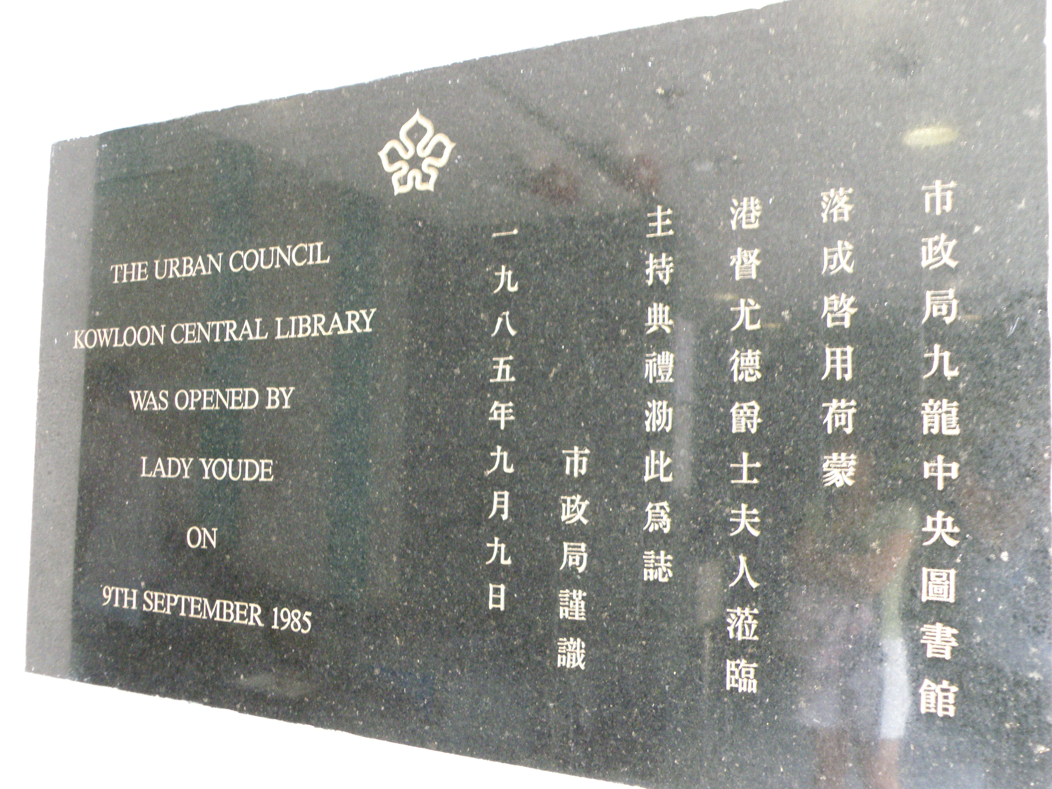 Kowloon Central Library opening plaque in Ho Man Tin, Hong Kong.